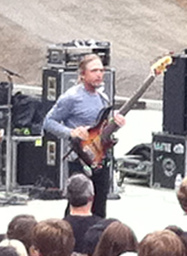 Steve Bailey performing in Frost Amphitheater, Stanford University, Stanford, California.